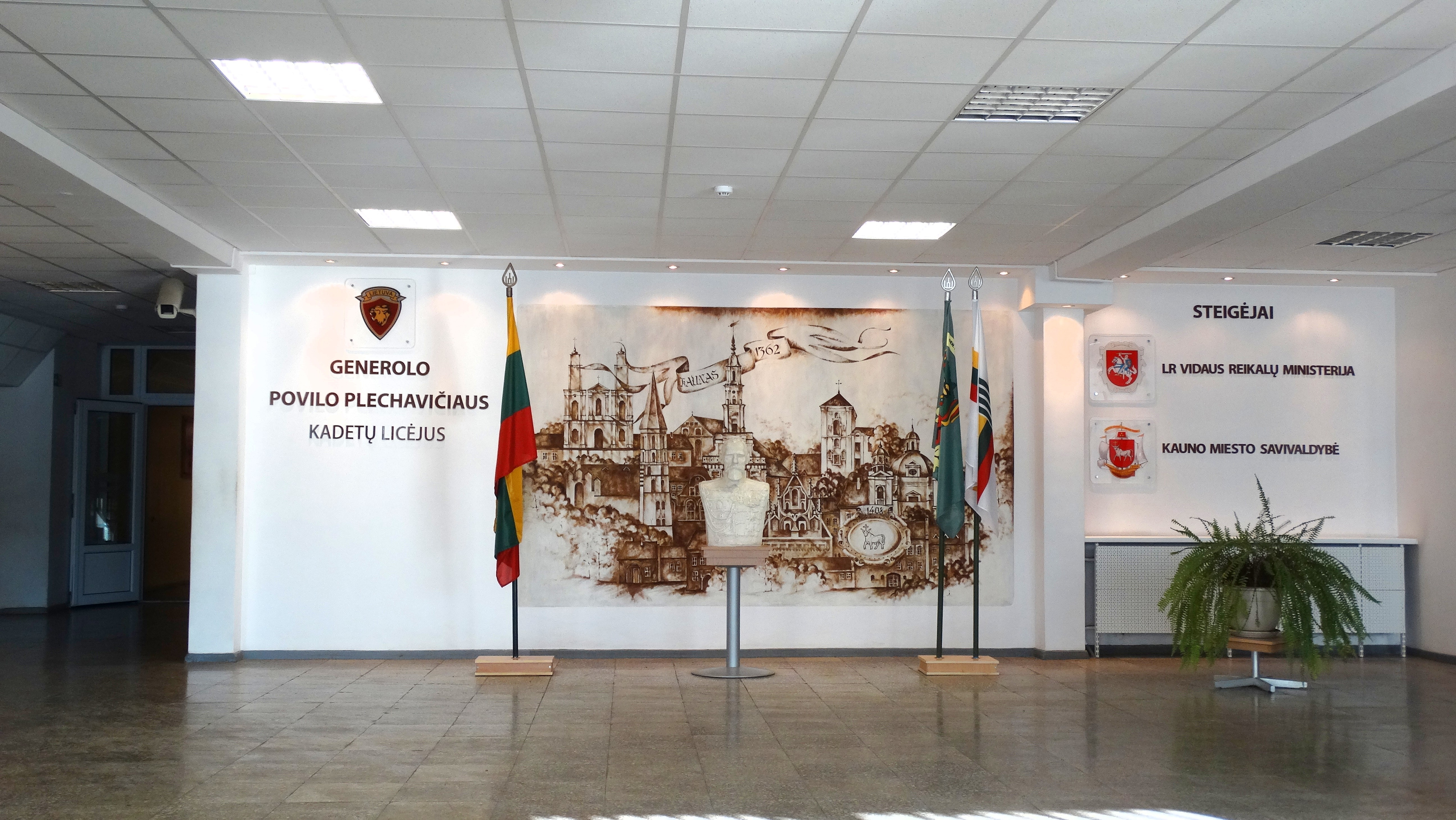 Lyceum of Cadets, Kaunas, Lithuania